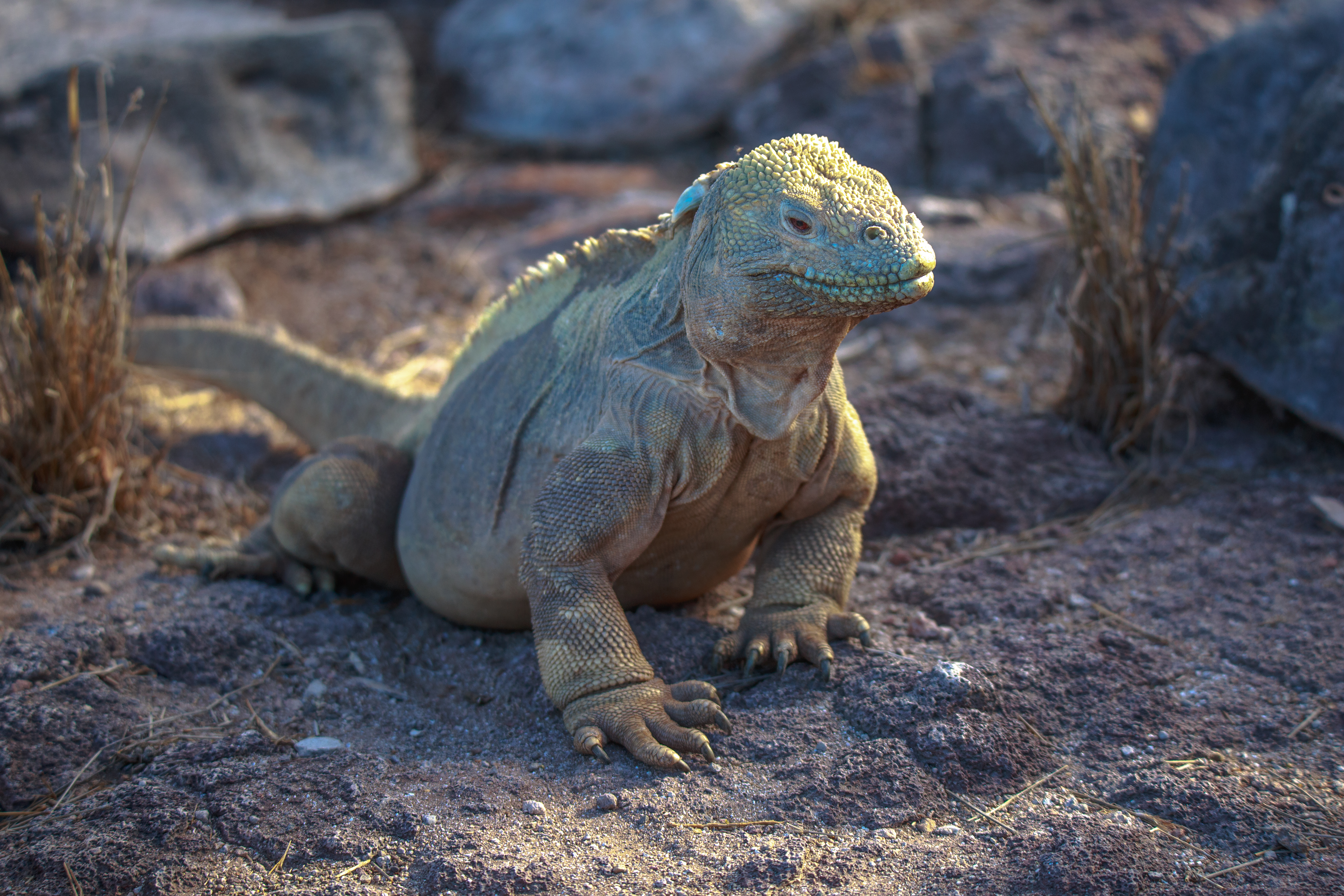 excursion to a lagoon on the N side of Isla Santa Fe...Land Iguana